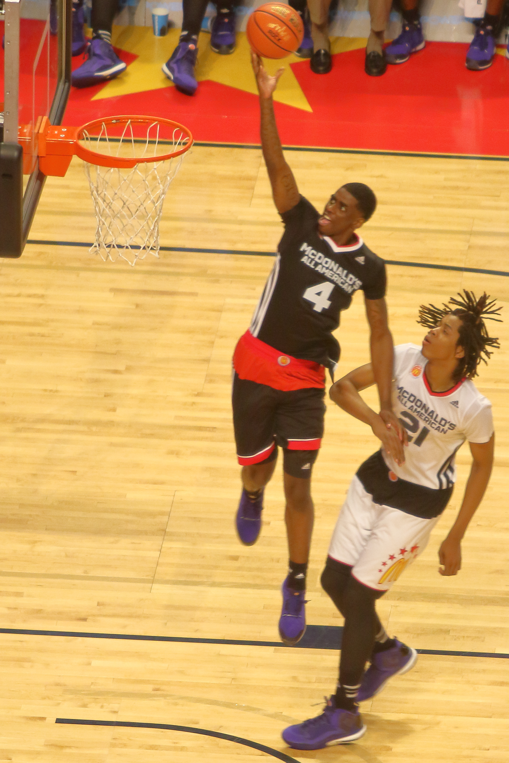 Dwayne Bacon in front of Deyonta Davis in the w:2015 McDonald's All-American Boys Game